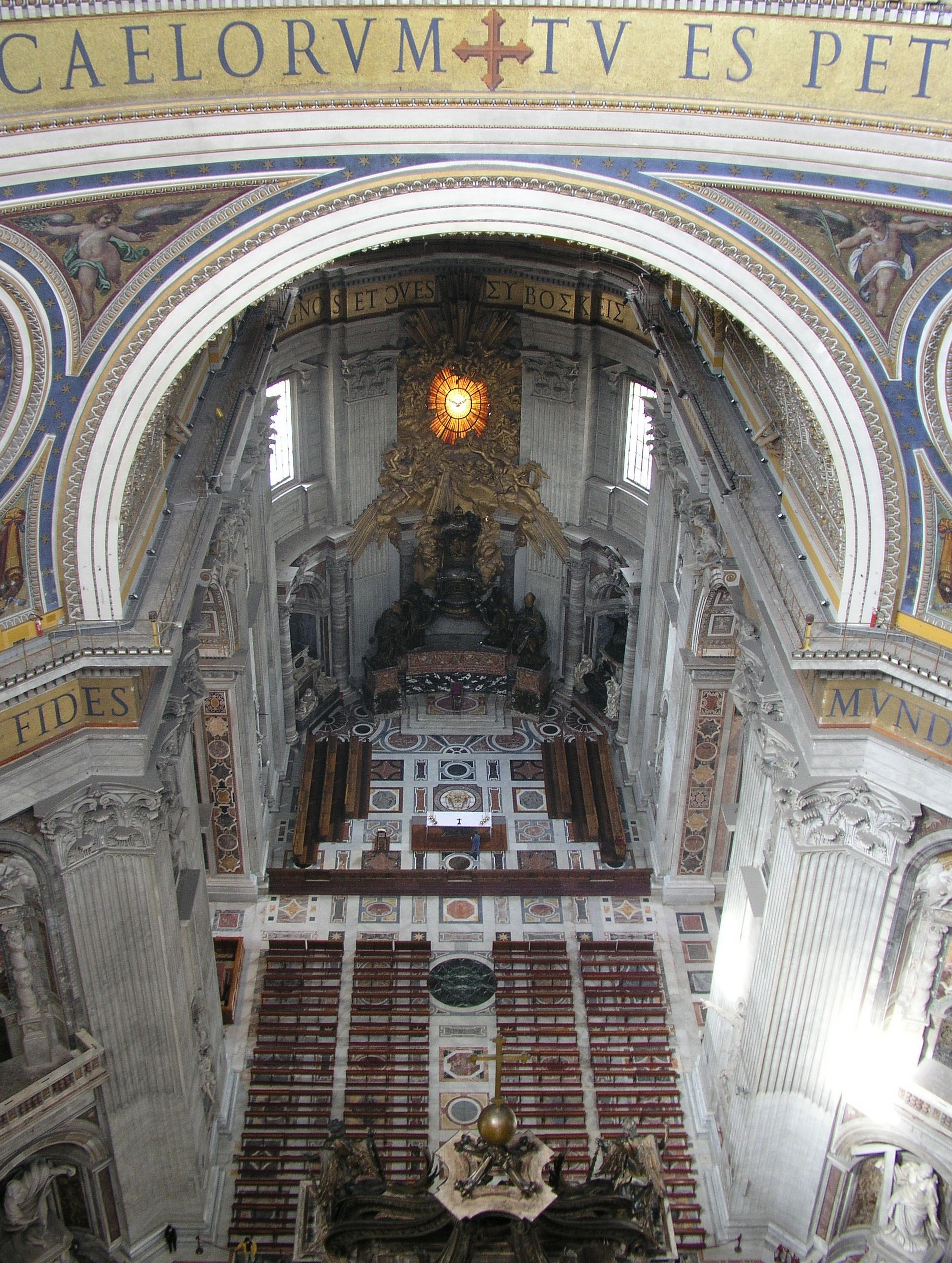 Cathedra Petri (Bernini) of St. Peter's Basilica, Rome